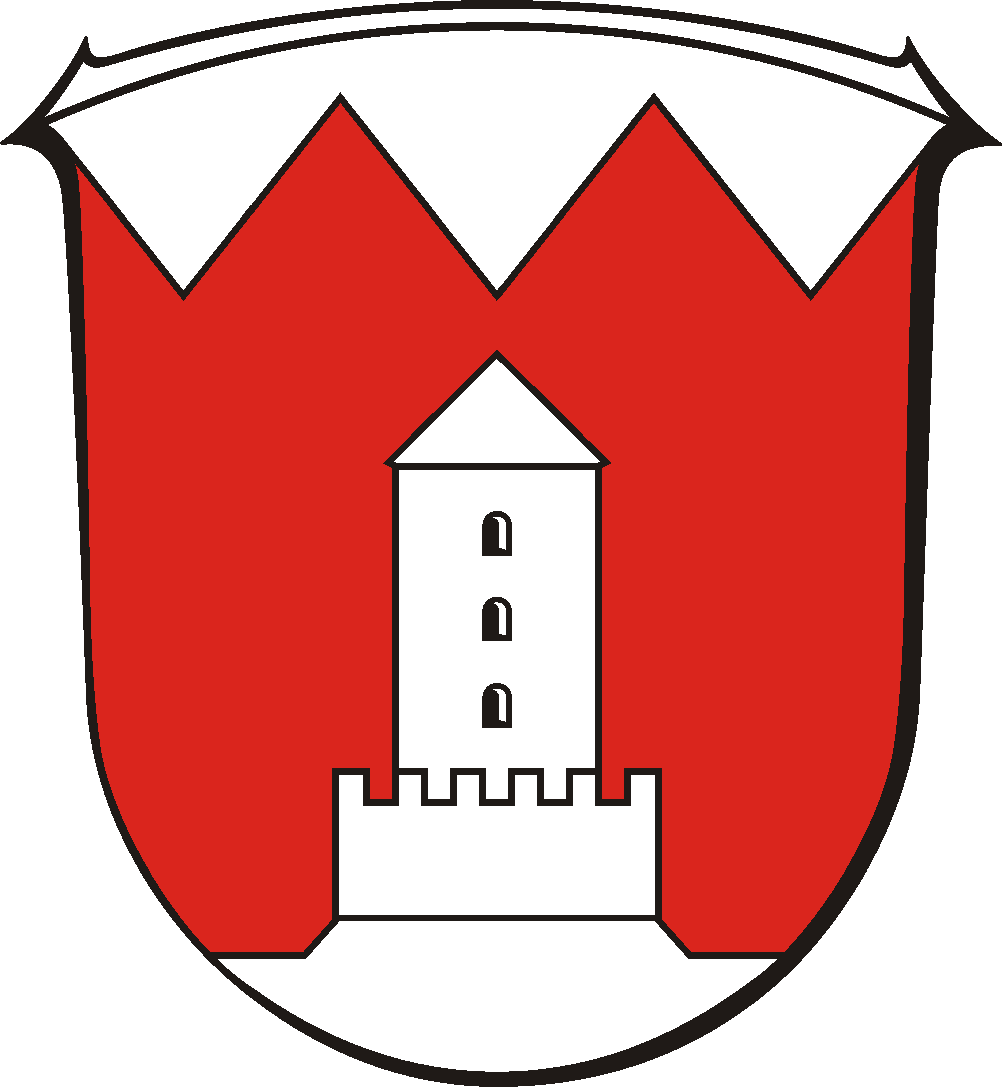 Coat of Arms of Obertshausen, part of Obertshausen